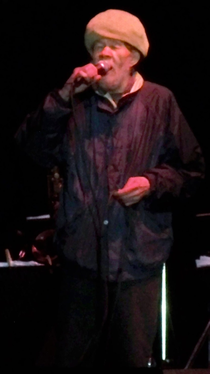 Rico Rodriguez singing at Guilfest 2012.